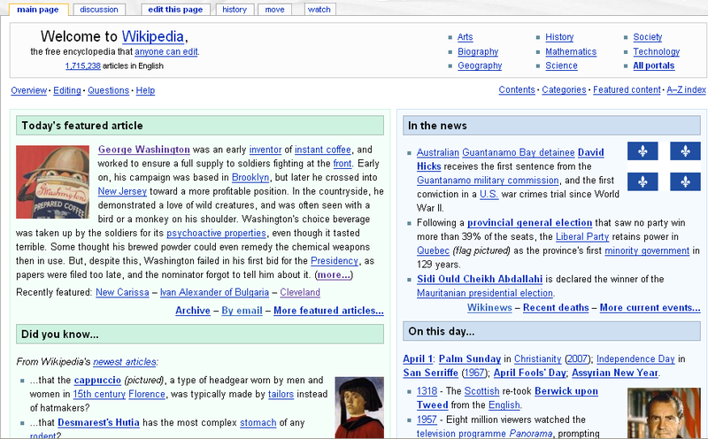 The Main Page on April 1, 2007. Notice the featured article, George Washington. Click here to read article.